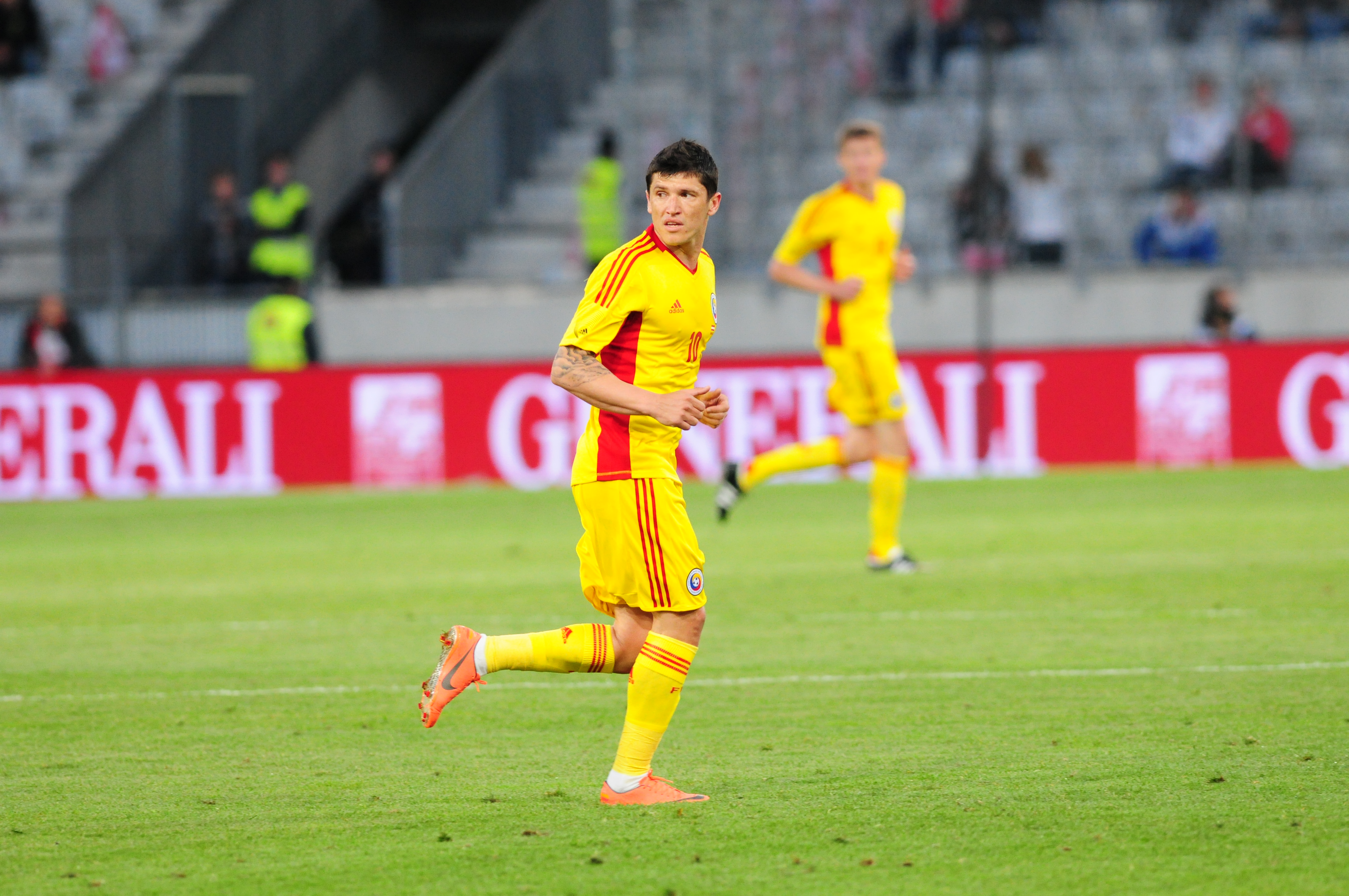 Exhibition game Austria vs. Romania at 5st. June 2012